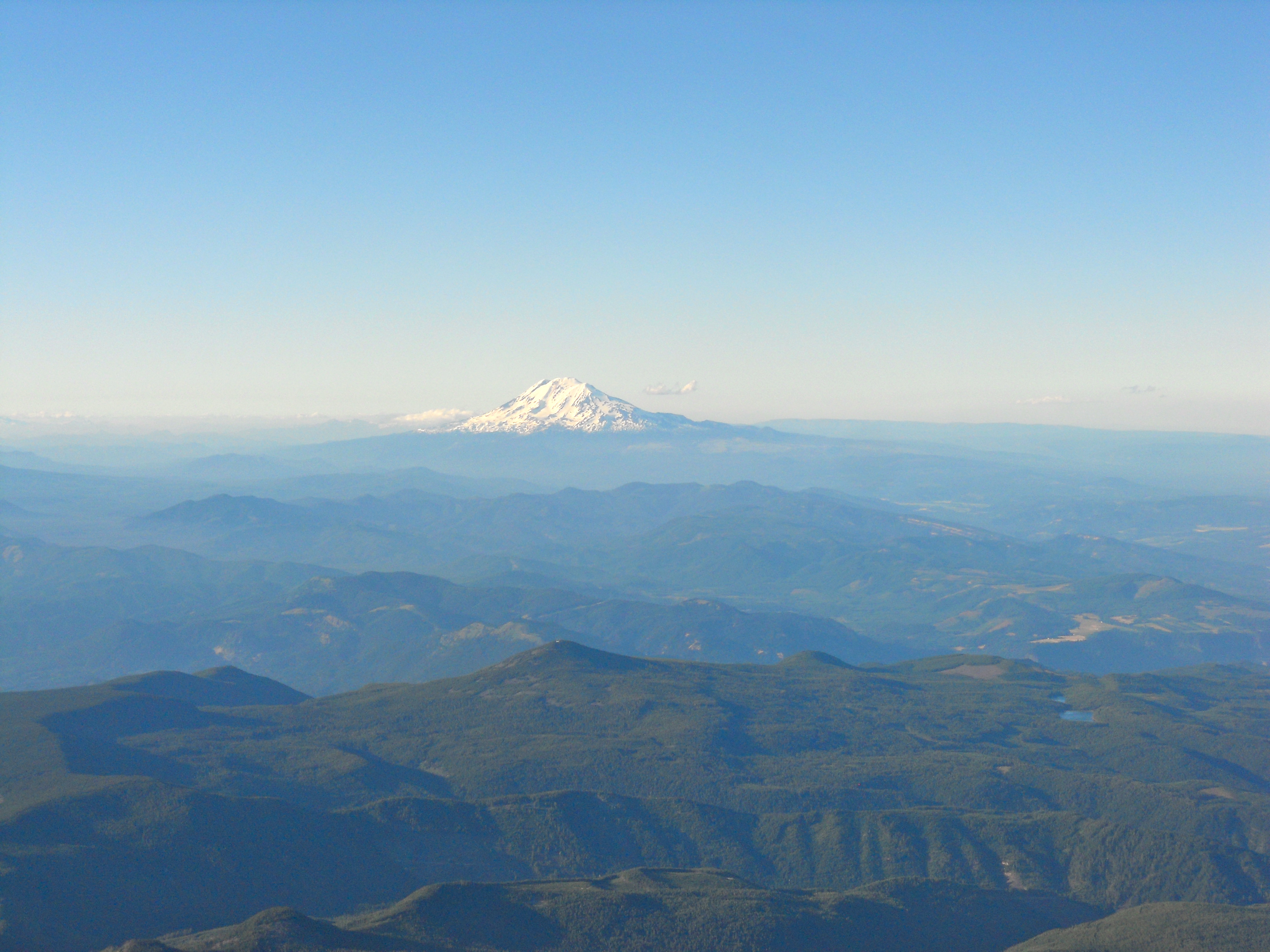 Mt. Adams in southern Washington state. View is from an airplane over northern Oregon, looking north across the Columbia River Gorge.